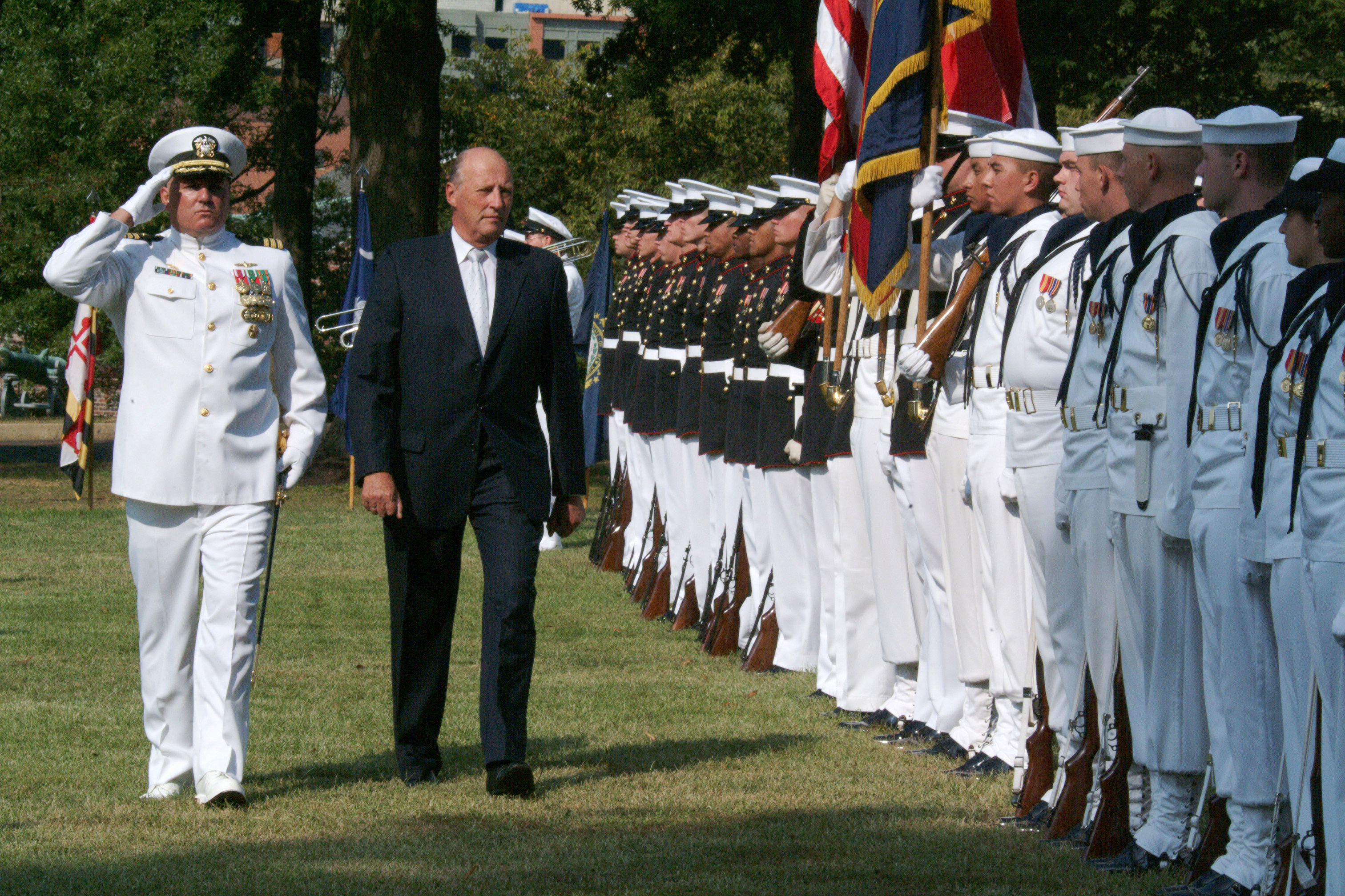 Washington, D.C. (Sept. 19, 2005) - His Majesty King Harald V of Norway is escorted by Commanding Officer, U.S. Navy Ceremonial Guard, Cmdr. Scott Chapman, during a full honor ceremony on behalf of his visit to the United States. His Majesty King Harald V is in the United States to celebrate 100 years of diplomatic relations between the United States and Norway, which forms part of Norway's centennial celebrations. Norway has been assisting in the Hurricane Katrina recovery efforts by providing emergency supplies, which include tents, blankets and surgical supply kits. U.S. Navy photo by Chief Photographer's Mate Johnny Bivera (RELEASED)